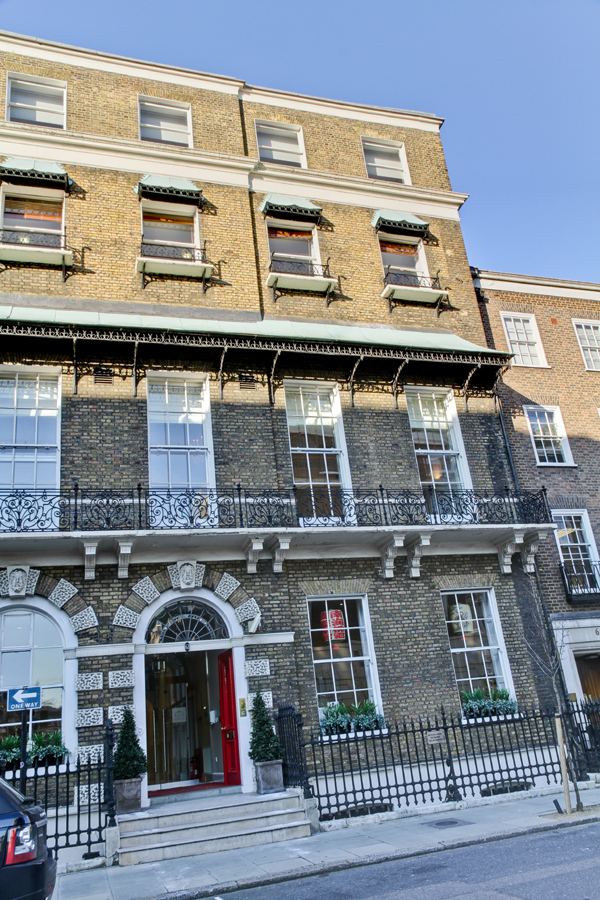 Asia House's headquarters at 63 New Cavendish Street, Marylebone